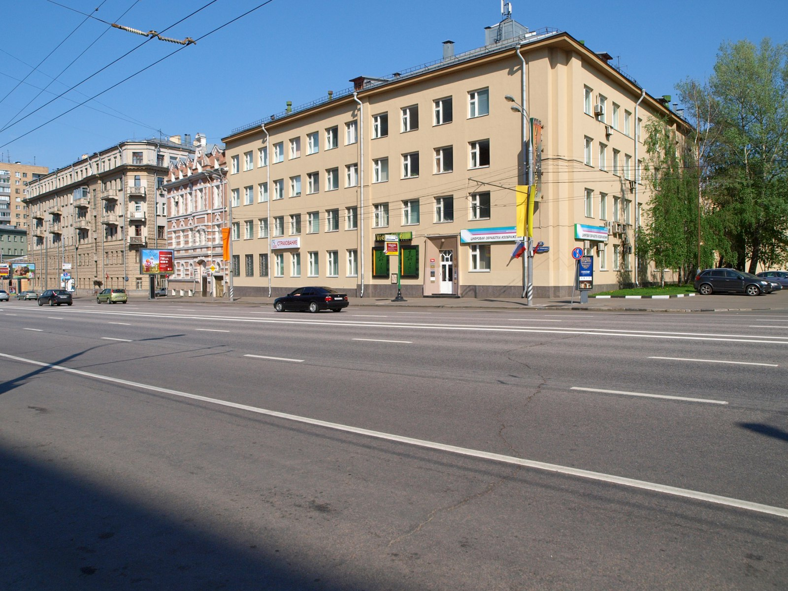 Bolshaya Yakimanka Street, Moscow.